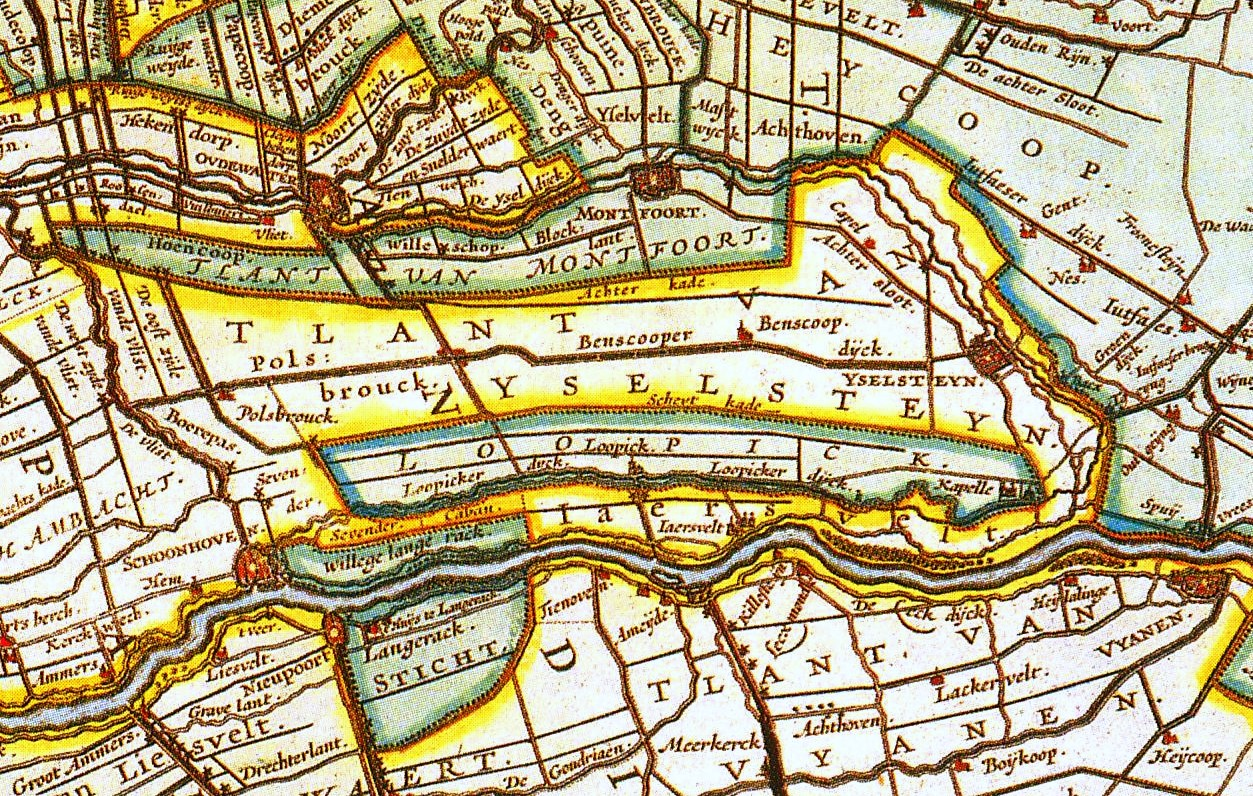 Map of the barony of IJsselstein